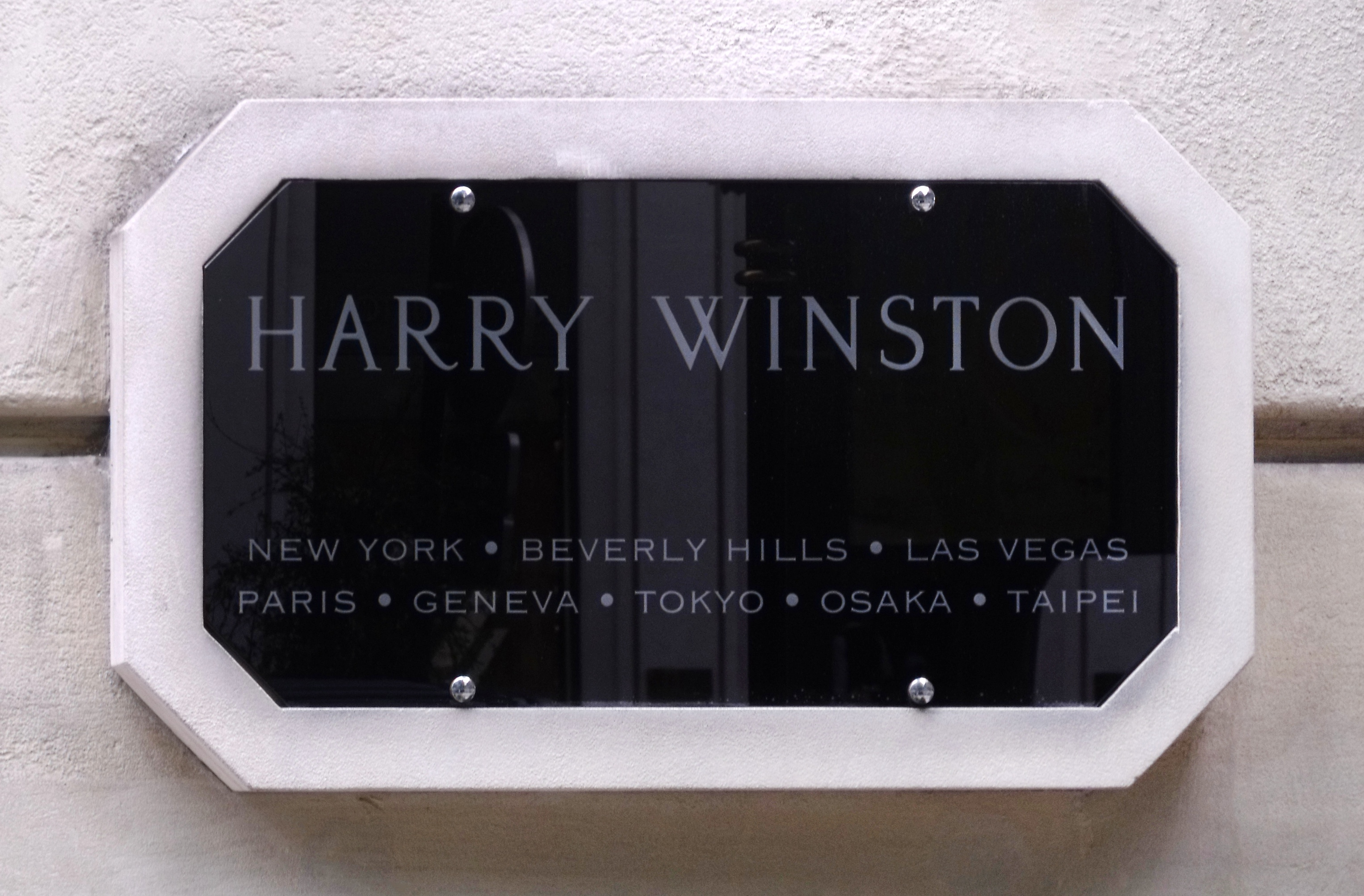 Harry Winston jewellery shop on Avenue Montaigne in Paris.